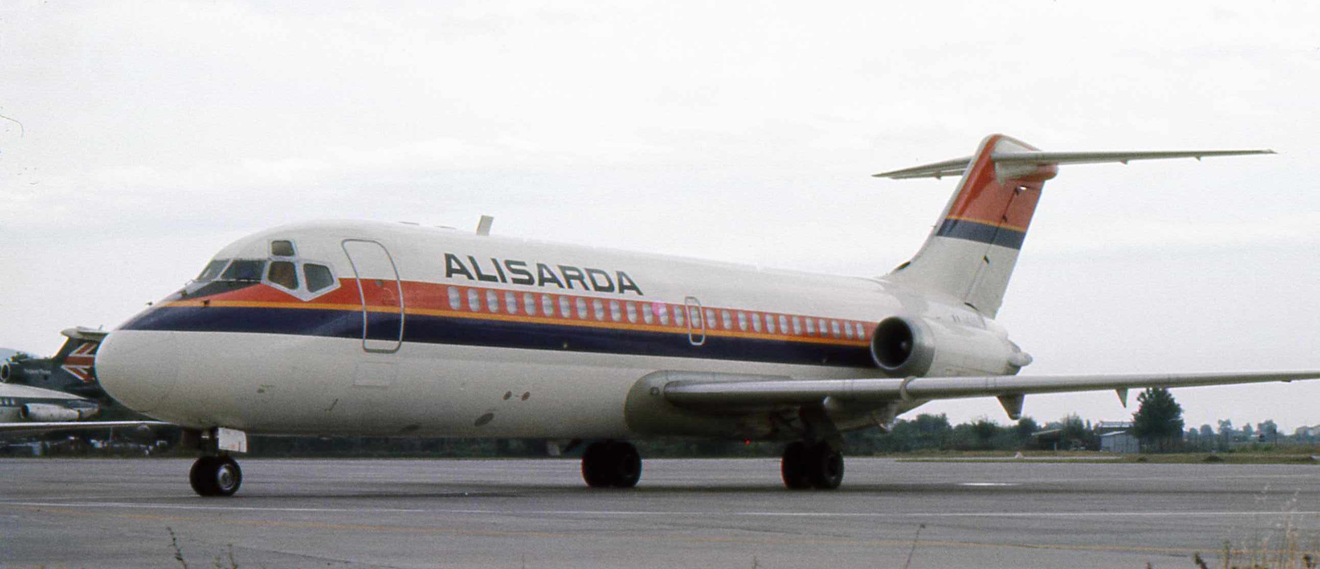 Italy, Pisa International Airport. Alisarda McDonnell Douglas DC-9-14, I-SARJ, c/n 45702/15, first flight on November 17, 1965 as N3307L and delivered to Delta Air Lines on January 11, 1966. Leased to Southern Airways in February 1973 and delivered to Alisarda in January 1974. Sold to Northwest Pipeline Company on May 12, 1981 and registered as N15NP. Sold to Omar Aviation in february 1983 and registered as N99YA. Delivered to Crossair in October 1985 as HB-IEF. Sold to Aero California in May 1995. Withdrawn from use in April 2006 and stored at Mojave Airport. Here is taken at Pisa Galileo Galilei Airport.